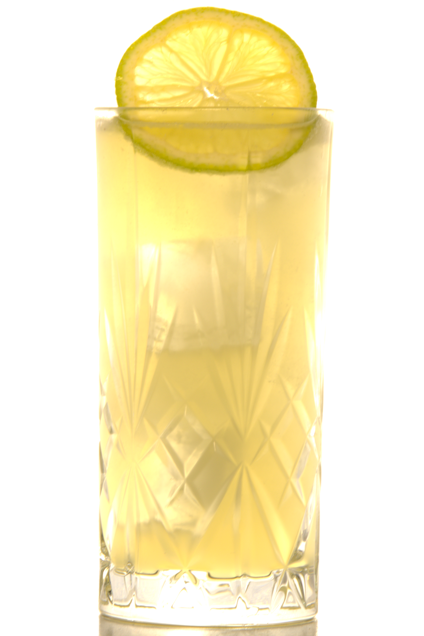 Tom Tonic Collins (cocktail).